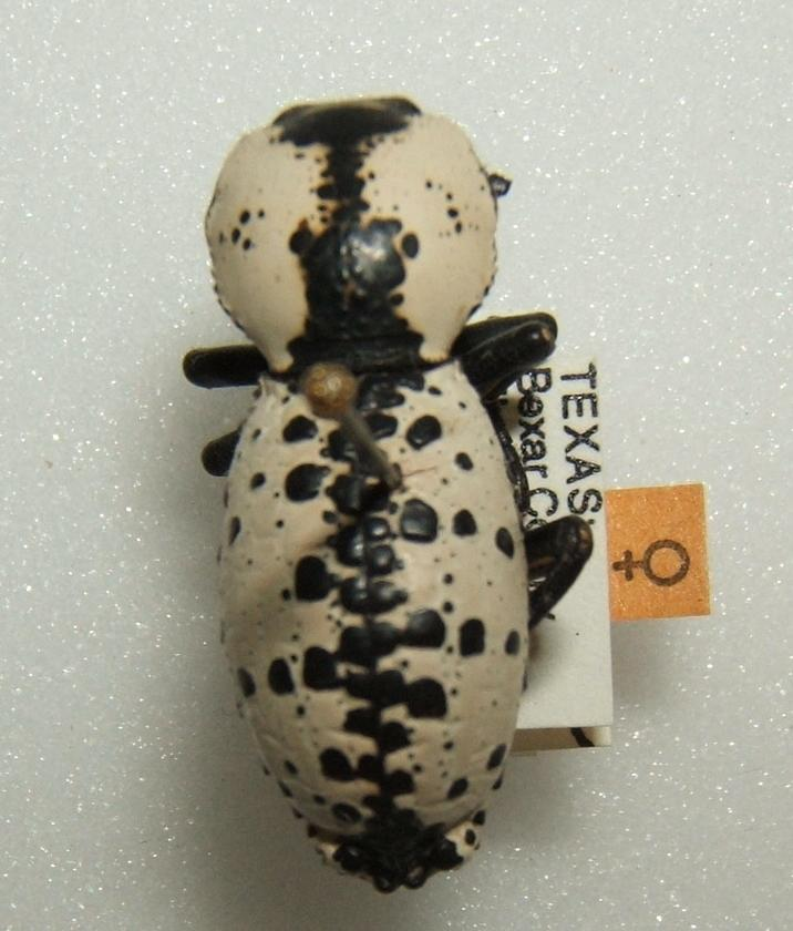 Zopherus nodulosus haldemani adult female taken by Shawn Hanrahan at the Texas A&M University Insect Collection in College Station, Texas.